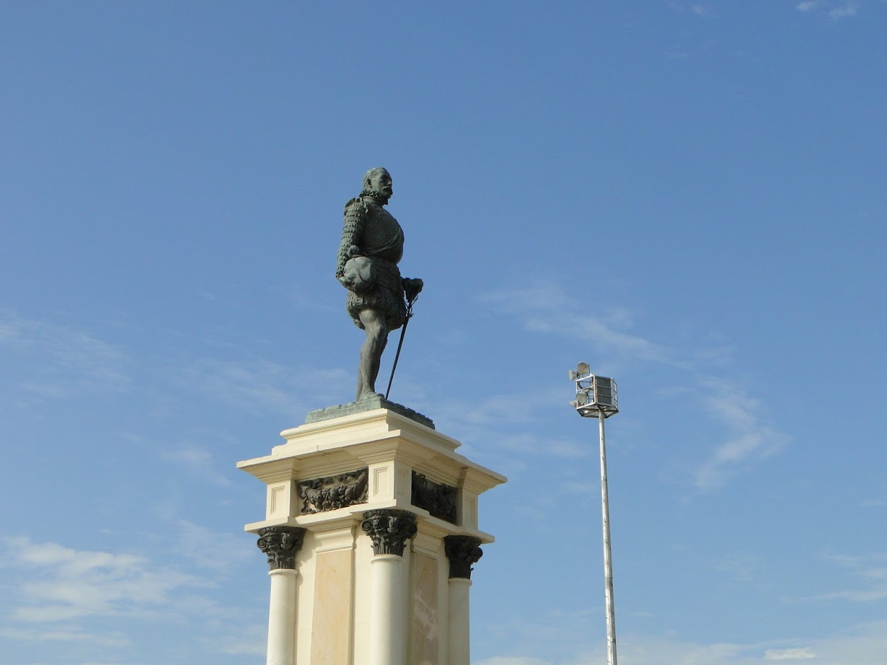 Памятник основателю города Родриго де Бастидас